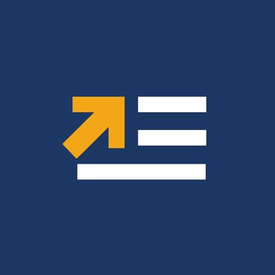 Logo for Congressional Progressive Caucus